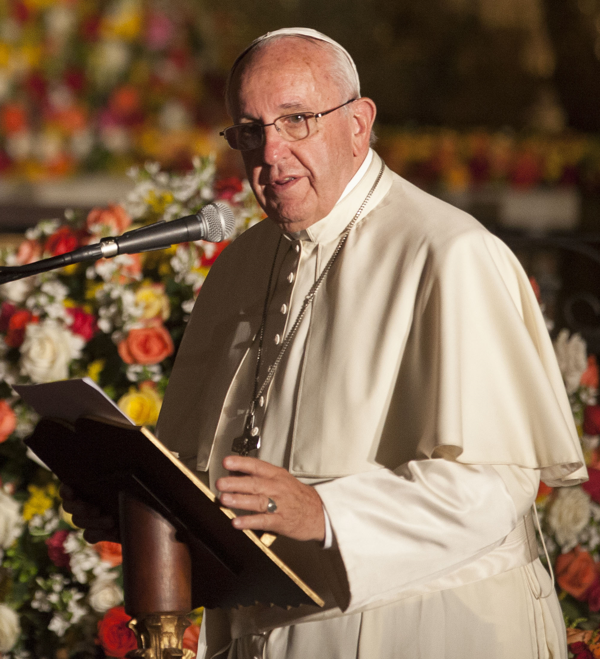 FrancisQuitoR